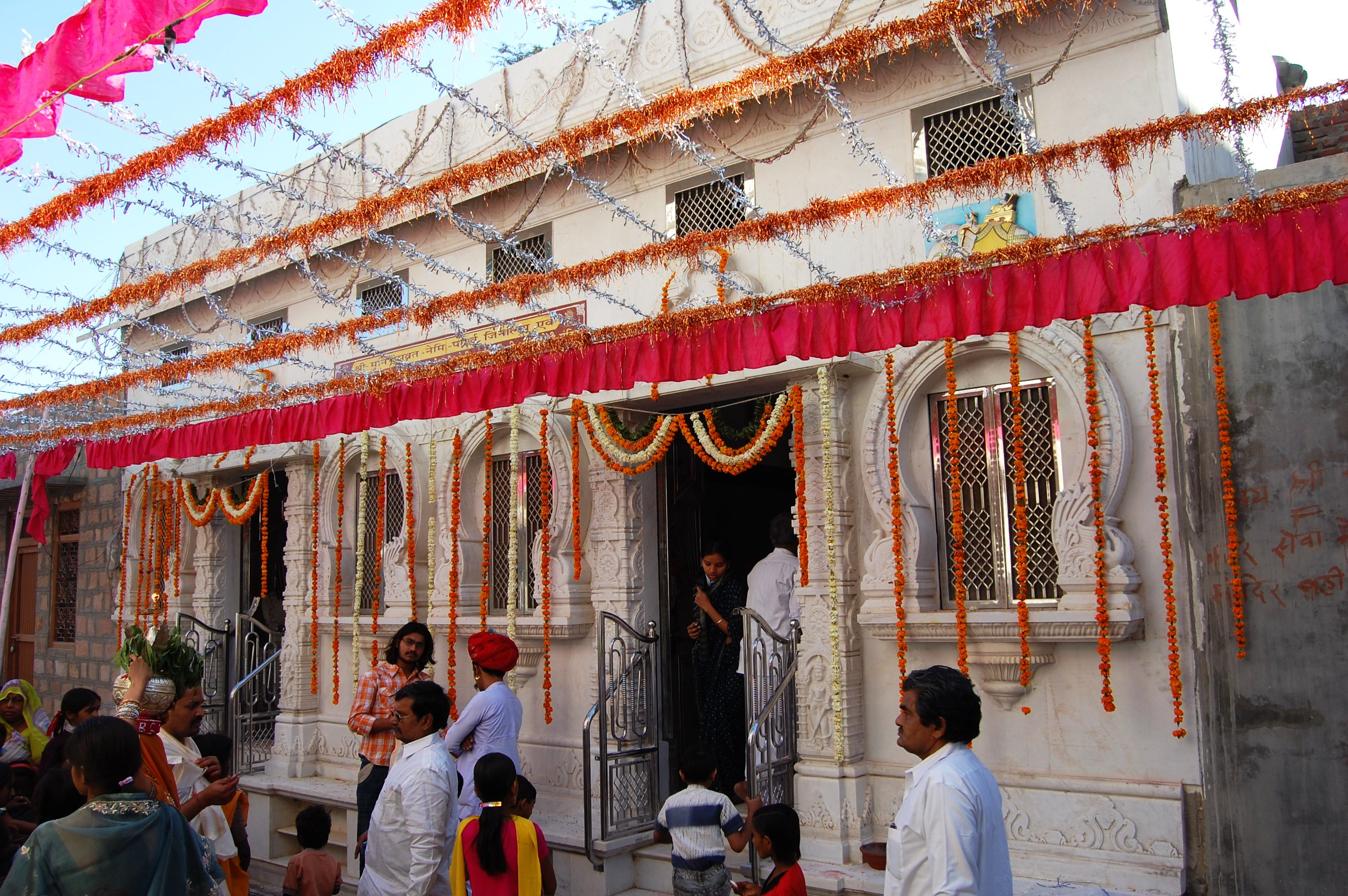 Photograph taken at Santhu with Nikon D40 Camera of the Jain Temple Dedicated To Lord Munisuvrat Swami.